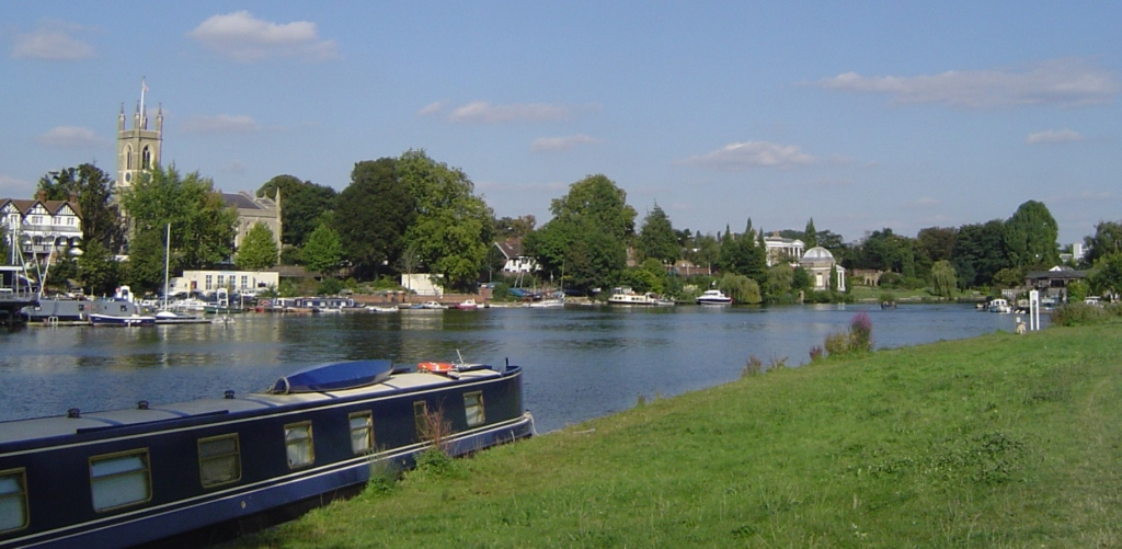 The River Thames at Moulsey Hurst Surrey England (copy own work from English wiki)